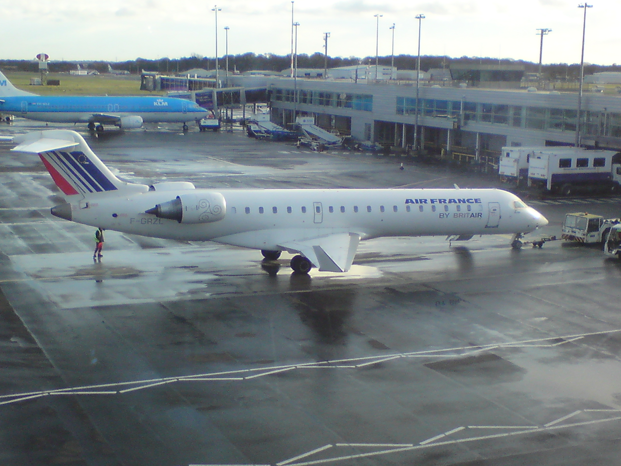 AirFrance plane parked at NCL